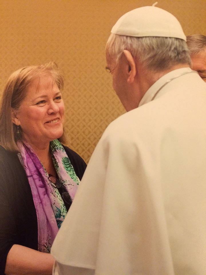 FWCC General Secretary Gretchen Castle meeting Pope Francis